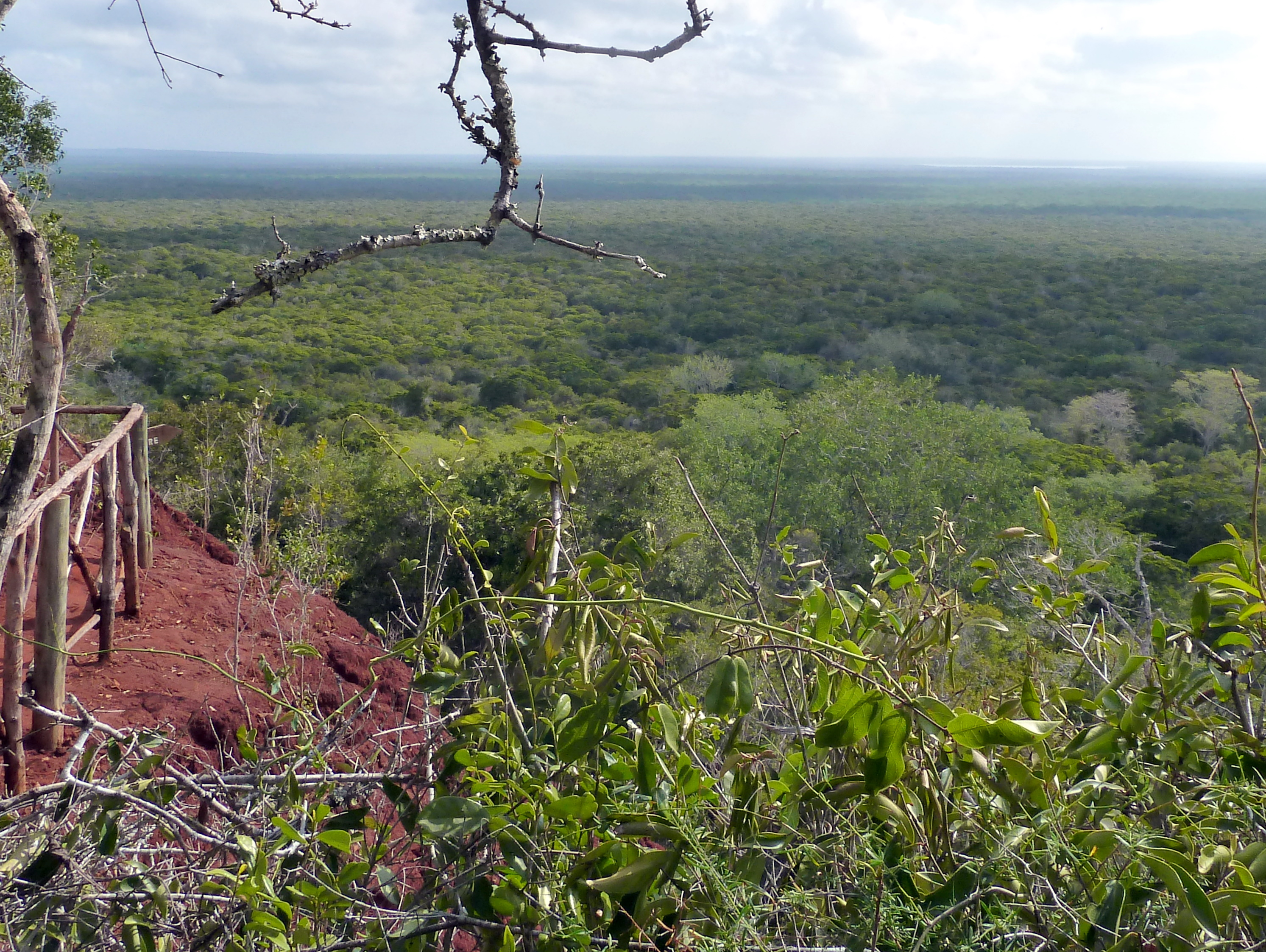 Endless Africa. Arabuko Sokoke Forest